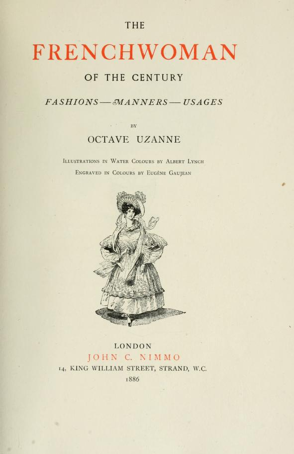 Octave Uzanne: The Frenchwoman of the century; fashions - manners - usages, illustrated by Albert Lynch. London: John C. Nimmo, 1887; also published by Routledge